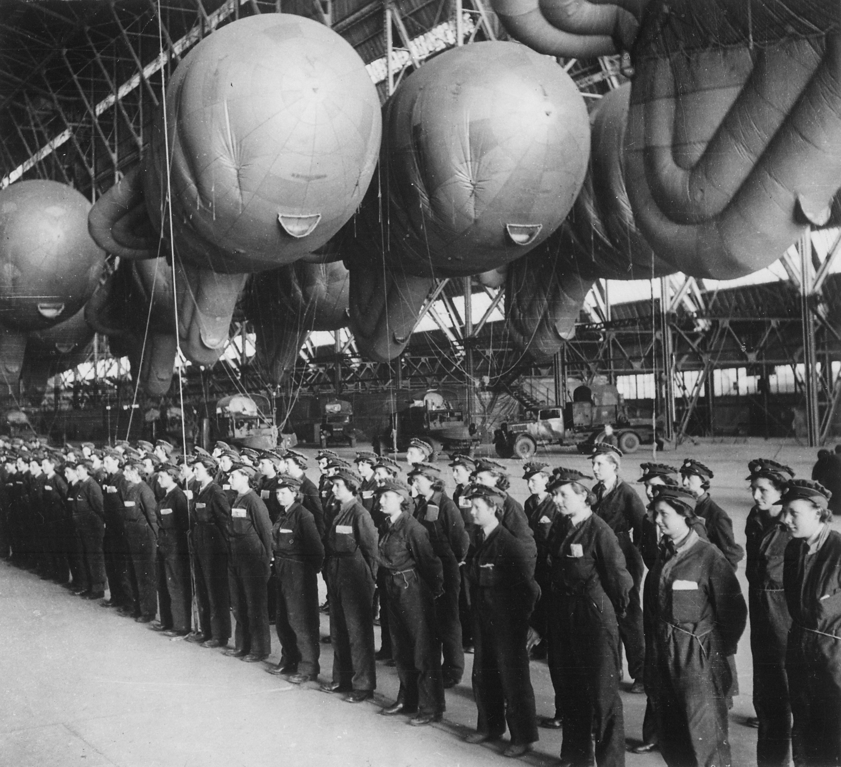 RAF Barrage Balloons with WAAF Operating Crews. Possibly RAE Cardington, Bedfordshire. In the background there are winch trucks based on Fordson Sussex Lorries